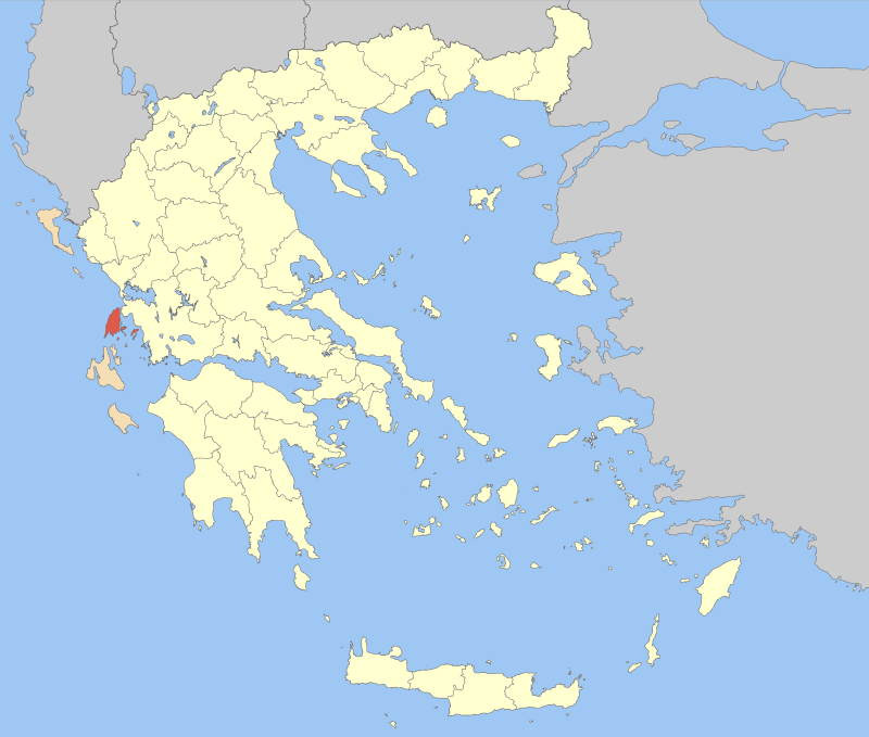 Locator map of the former Lefkada prefecture (Νομός Λευκάδας) in Greece, the Lefkada Regional Unit since 2010